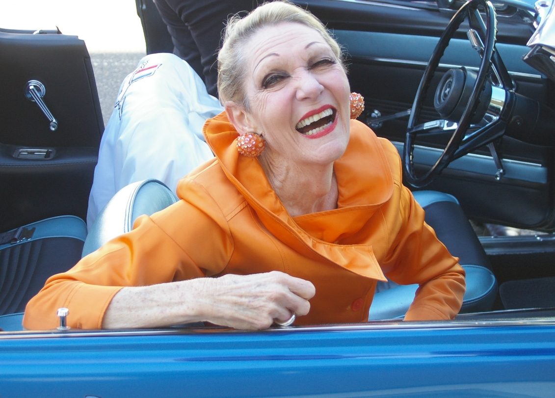 Jeanne Little as guest of honour Blacktown City Festival Parade 2008